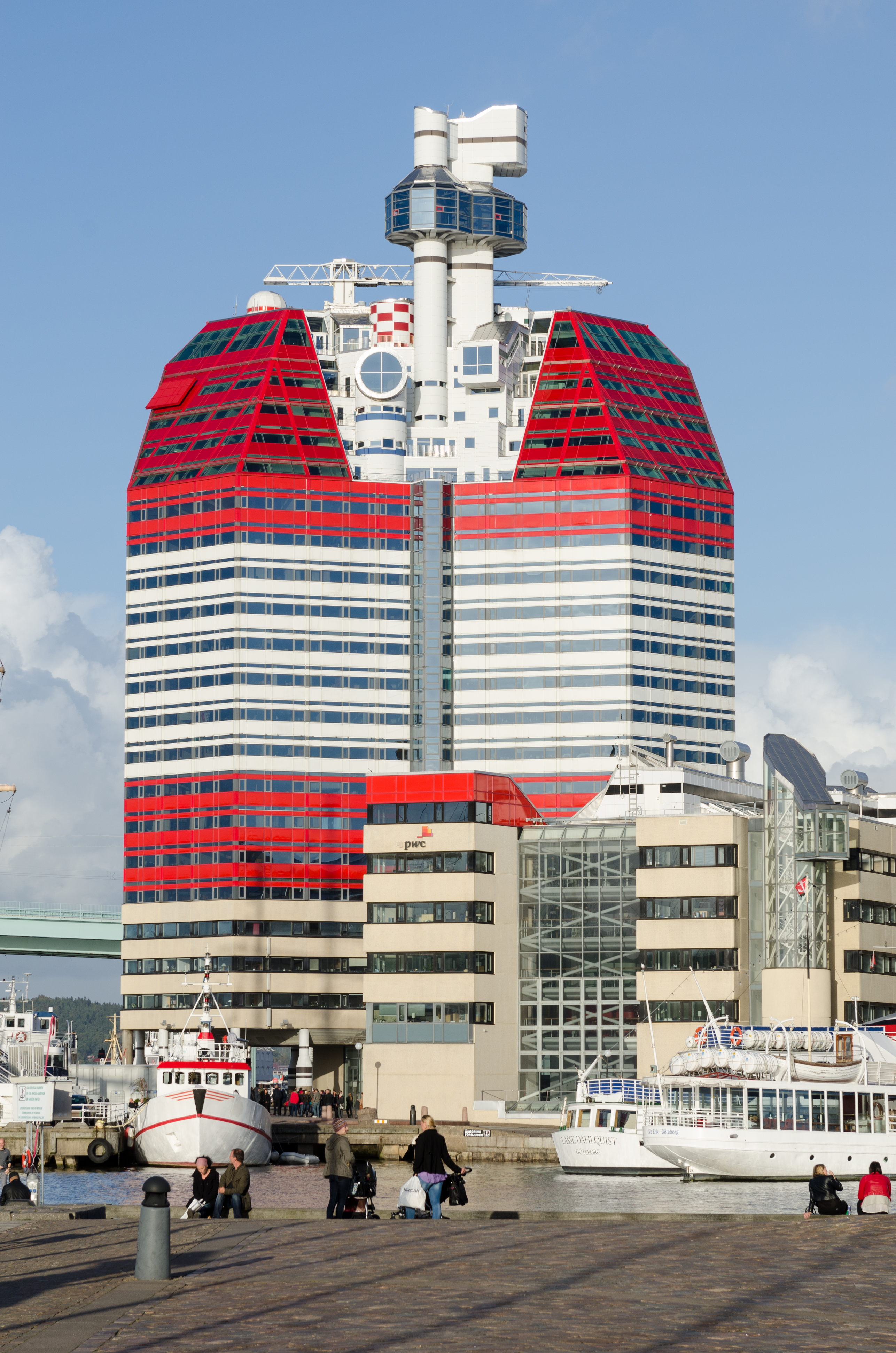 “Skanskaskrapan” in Gothenburg, Sweden; designed by Ralph Erskine